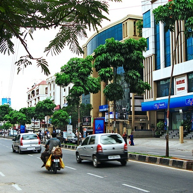 Hyderabad street